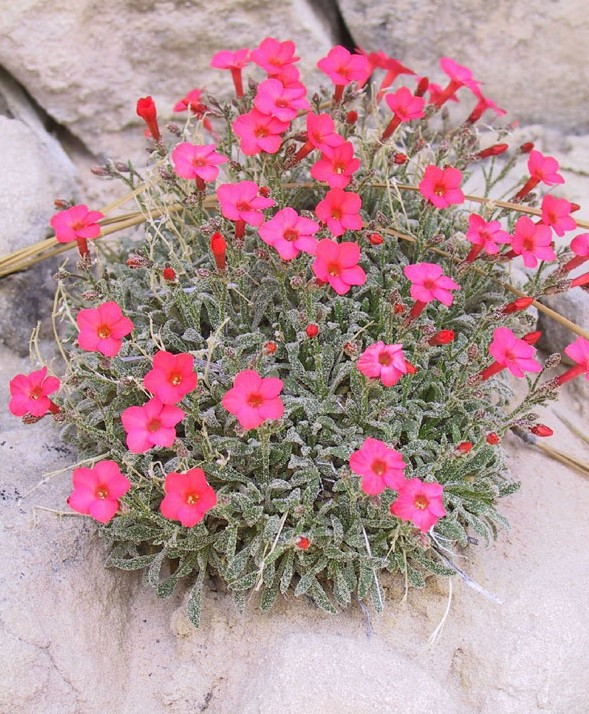 Aliciella caespitosa. US Forest Service photo, no copyright.